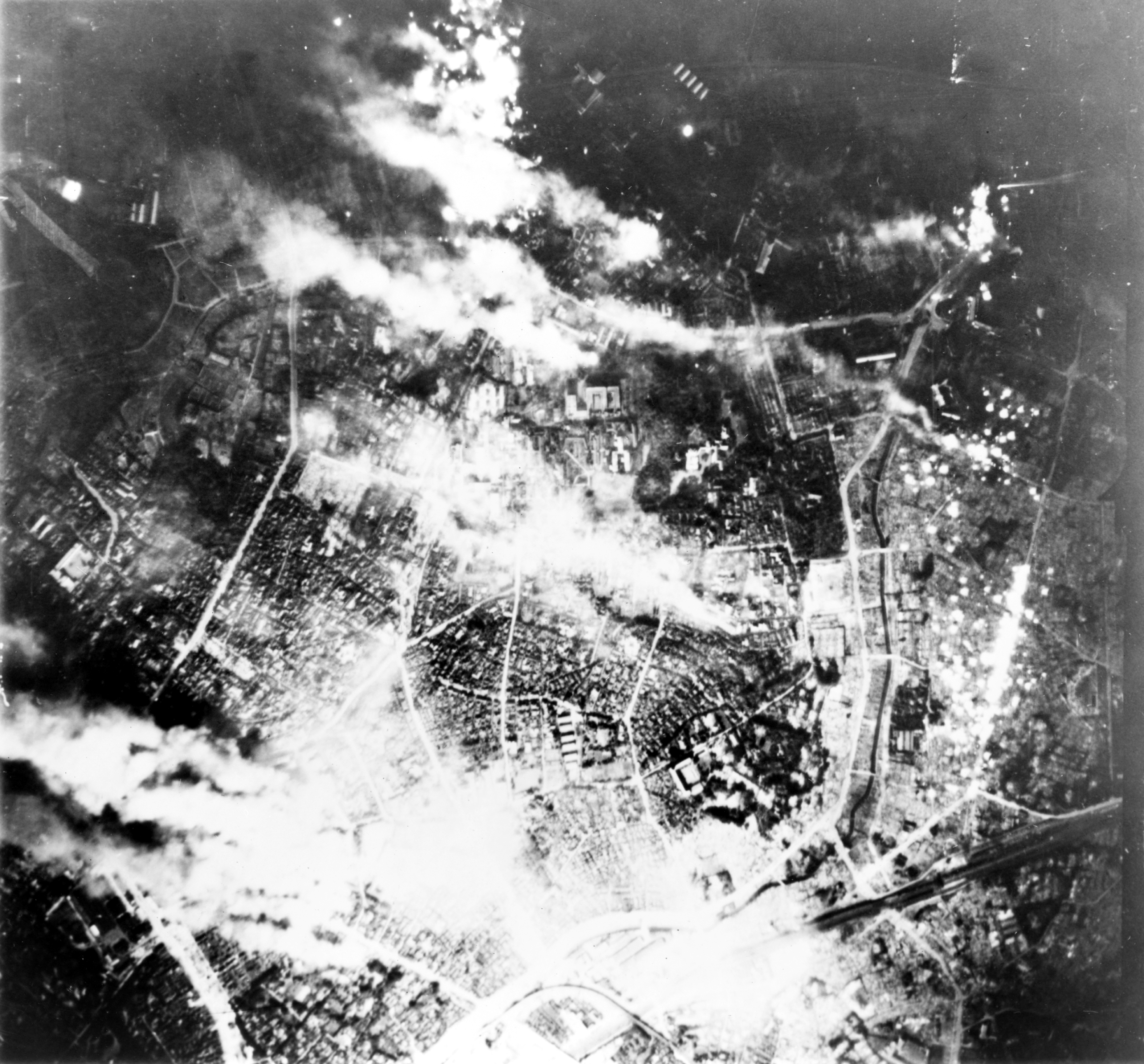 "Tokyo burns under B-29 firebomb assault." May 26, 1945.